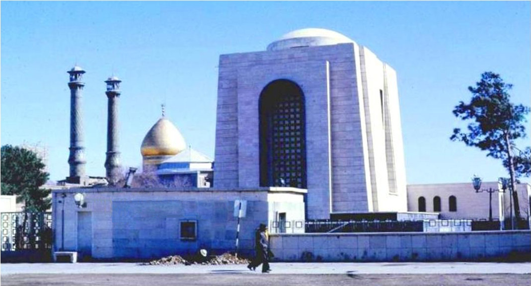 Reza Shah's mausoleum